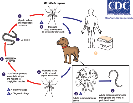 Life Cycle of Dirofilaria repens